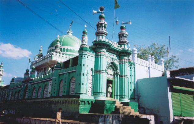 Surat Shawali Darga, Patel Chowk (1.5 km from Main S. T. Stand),Latur